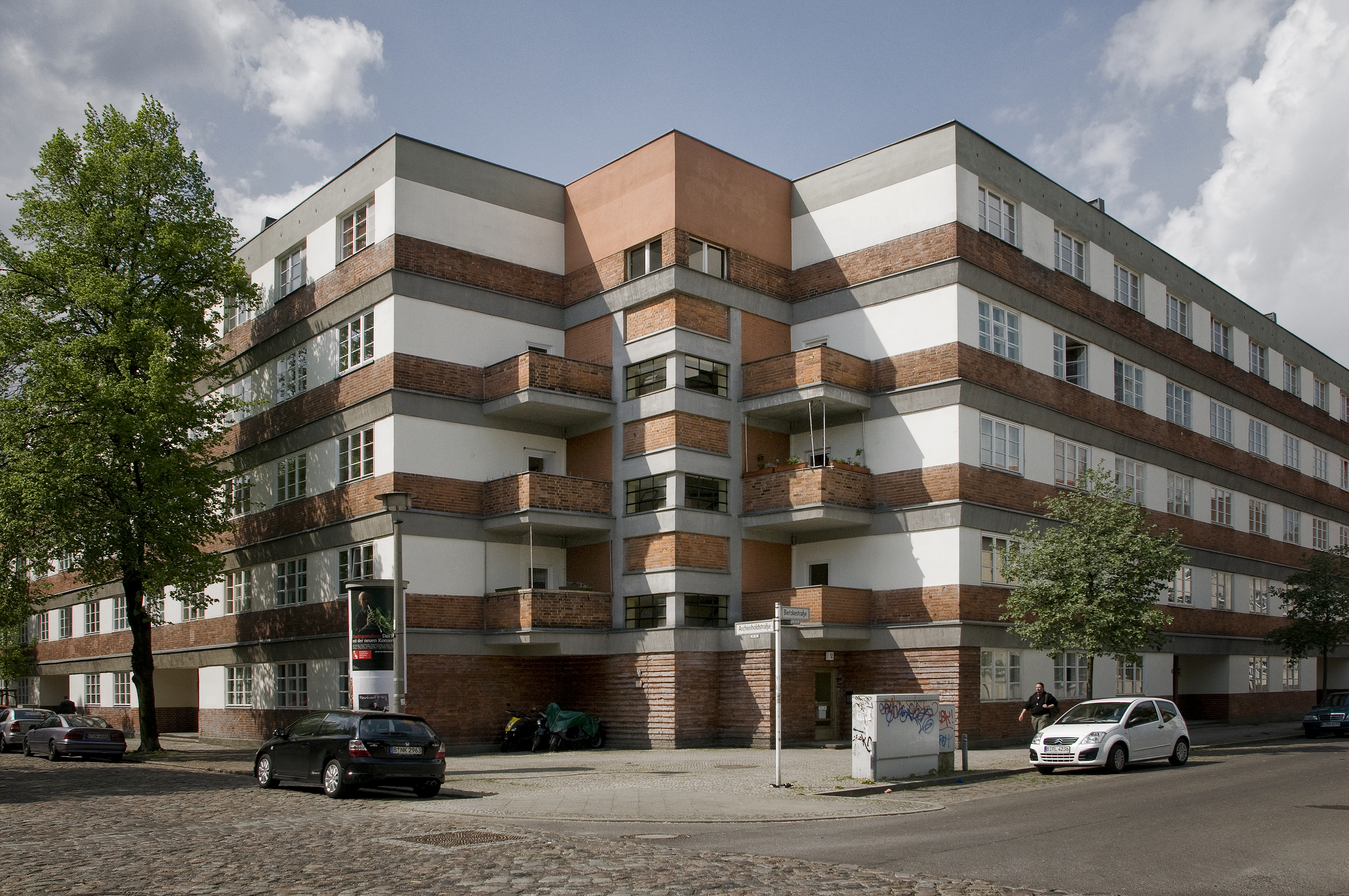 Architect Erwin Anton Gutkind Berlin Lichtenberg Sonnenhof Built 1925-1927 Corner Situation